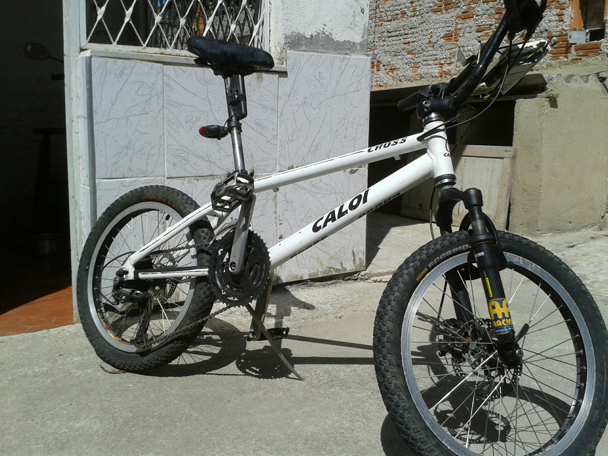 a brazilian maked caloi cross aluminium the first bxr style bike